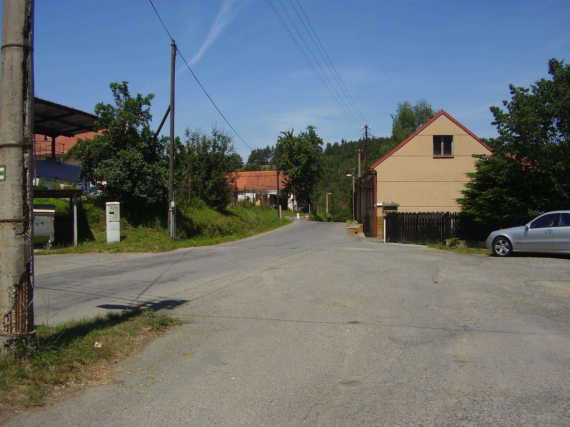 Square in Bojanovice - Malá Lečice in Central Bohemian Region, Prague-West District